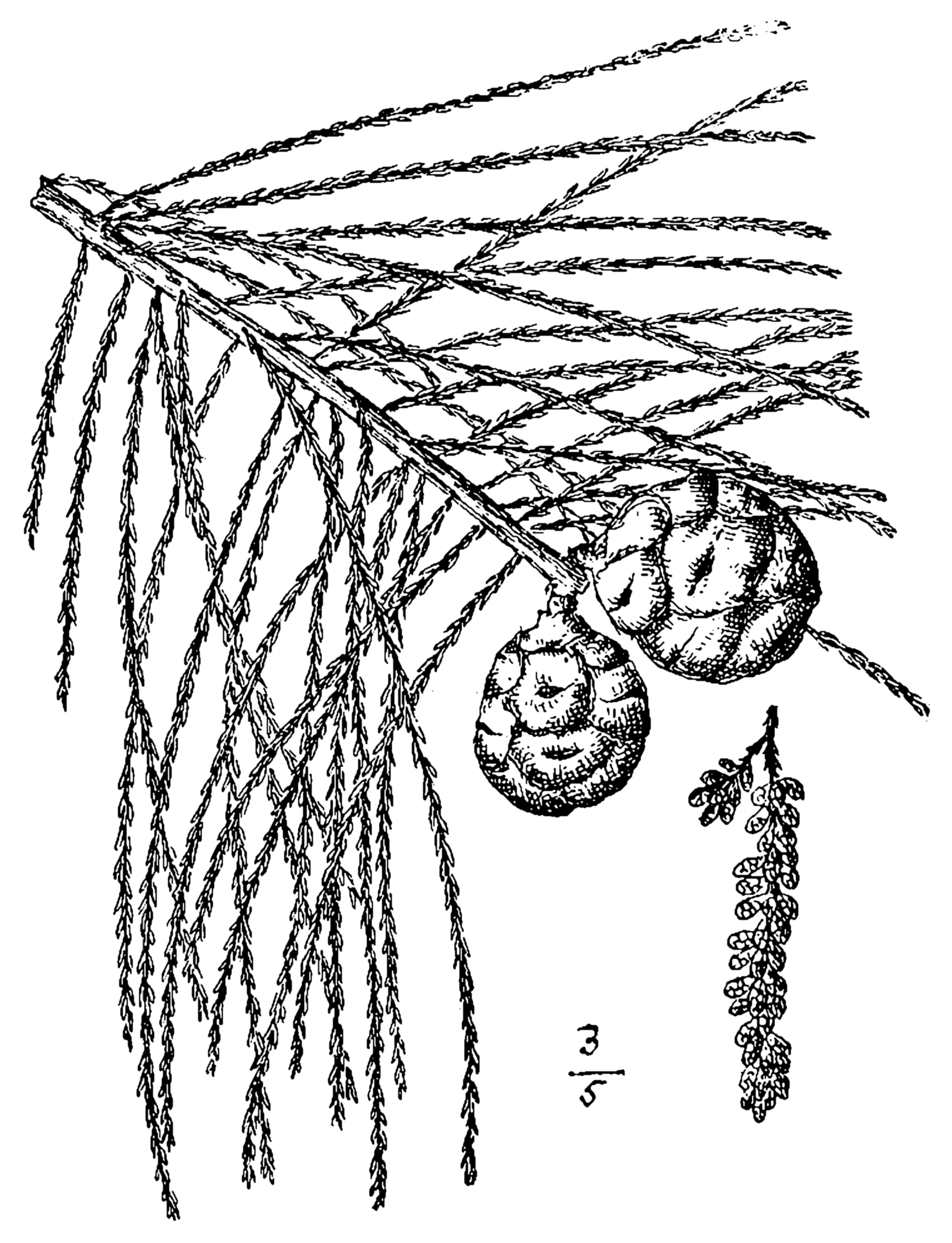 Pond Cypress. Line drawing.